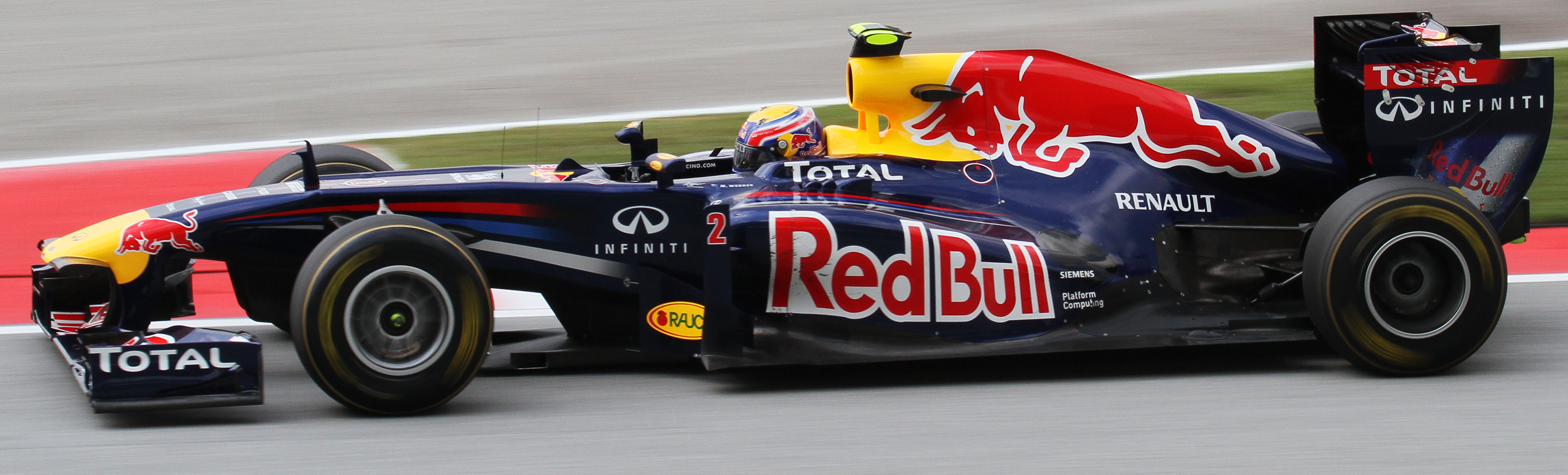 Formula One 2011 Rd.2 Malaysian GP: Mark Webber (Red Bull) during the second practice session on Friday.